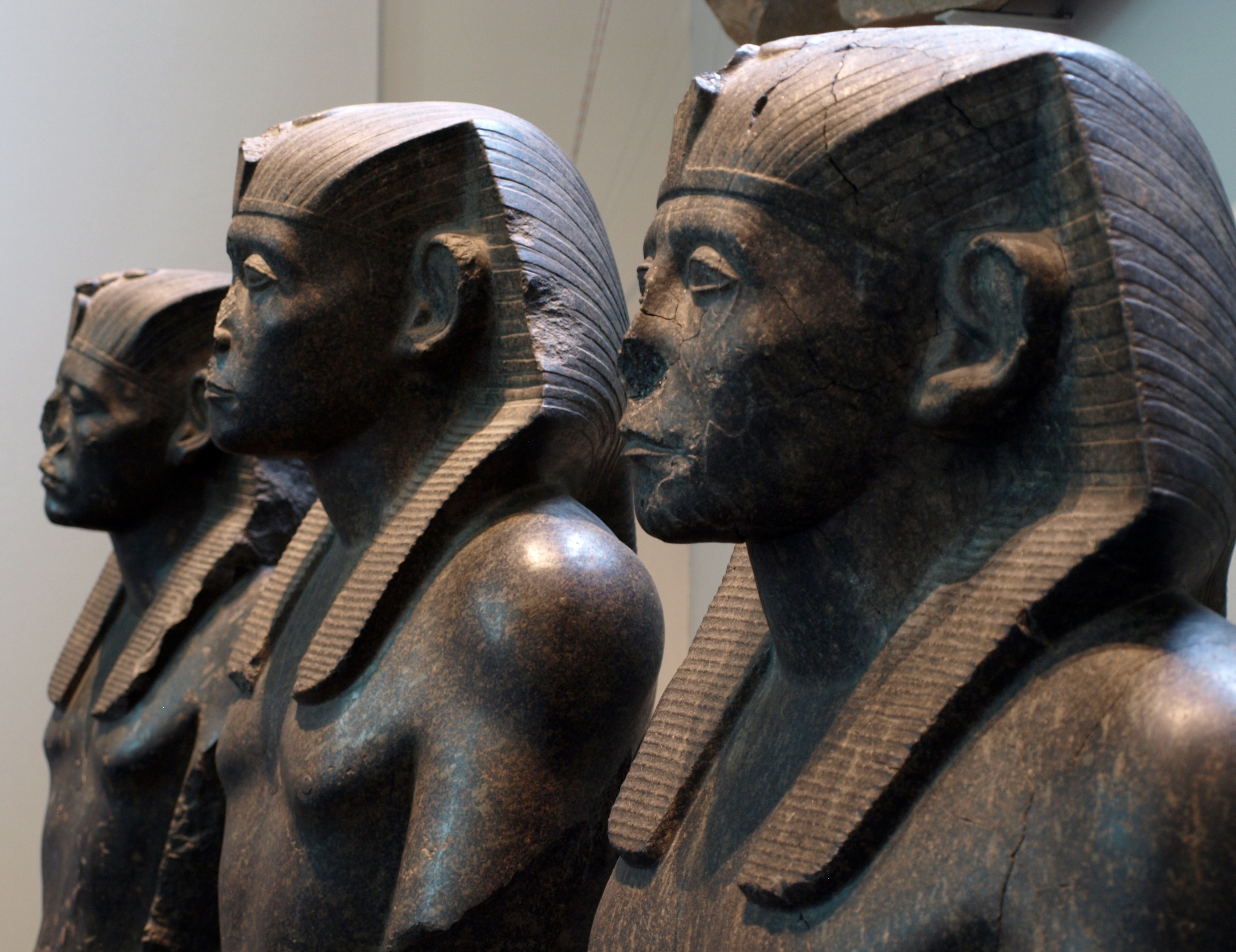 Three black granite statues of the pharaoh Sesotris III, seen in right profile. From the time of the 12th dynasty, circa 1850 BC. Originally from Deir el-Bahri. EA 684, 685, 686.